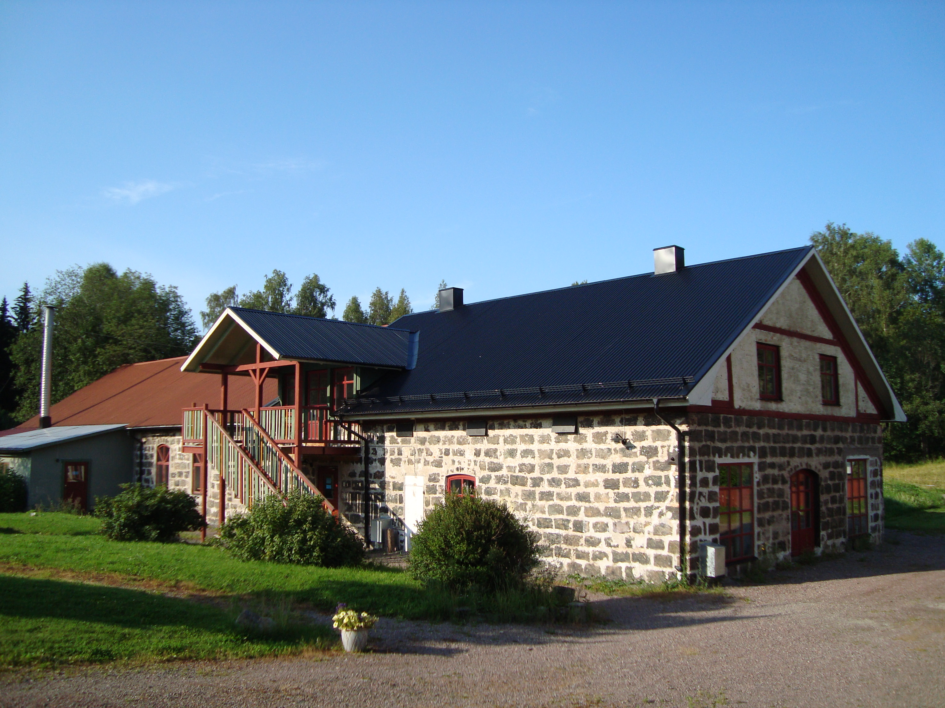 Building from Dormsjö Bruk (1782–1900), now part of Waldorff school "Annaskolan". Dormsjö, Hedemora Municipality, Sweden